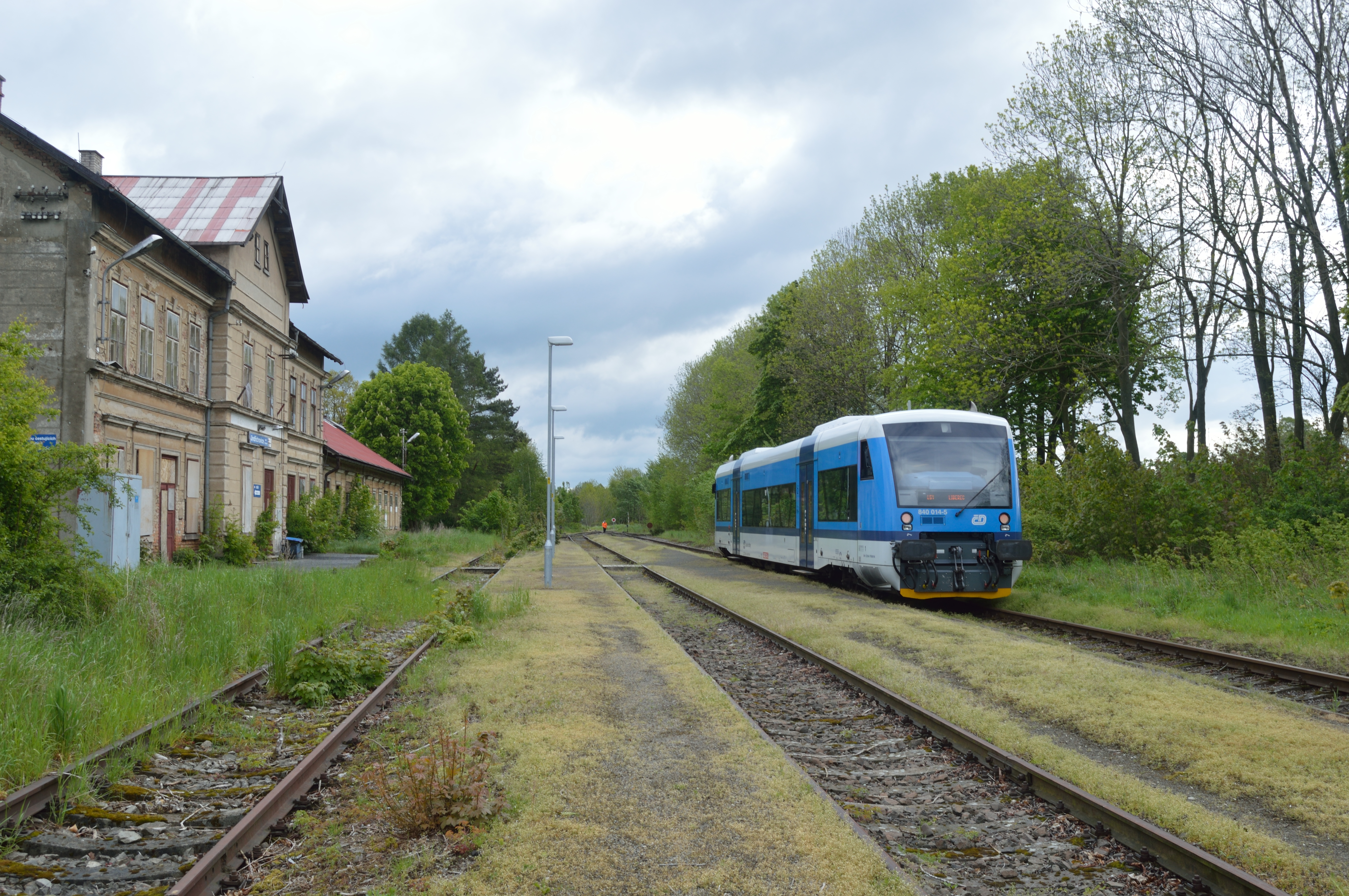 Having spent a night at Raspenava, I completed the trio of branches the following morning of 12 May 2014. Seen here is 840.014 at a typical end of line view. Runround infrastructure is still provided to allow the occasional hauled train despite the reguarly daily diet being DMUs. Train Os6361, 10:02 Jindřichovice pod Smrkem to Liberec.